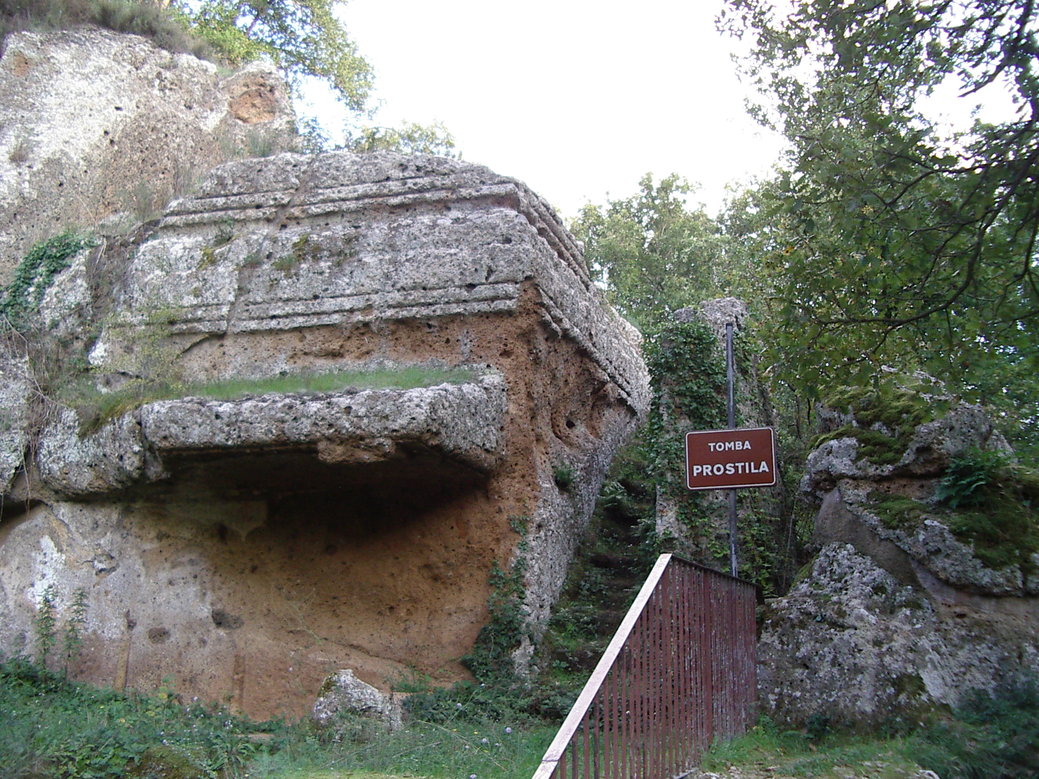 Norchia - Prostilia Tomb